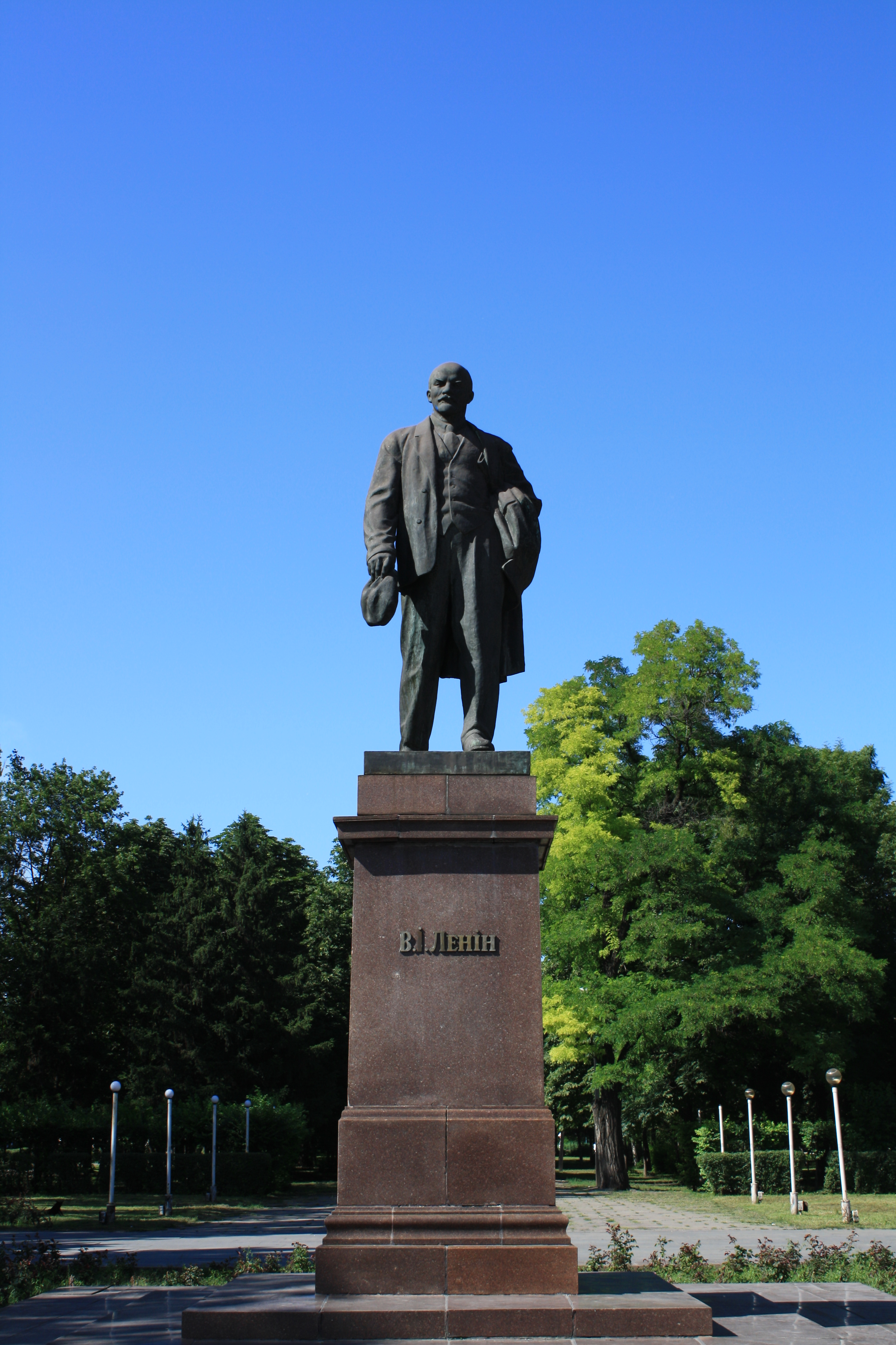 Monument Lenin,Dneprodzerzhinsk, Ukraine